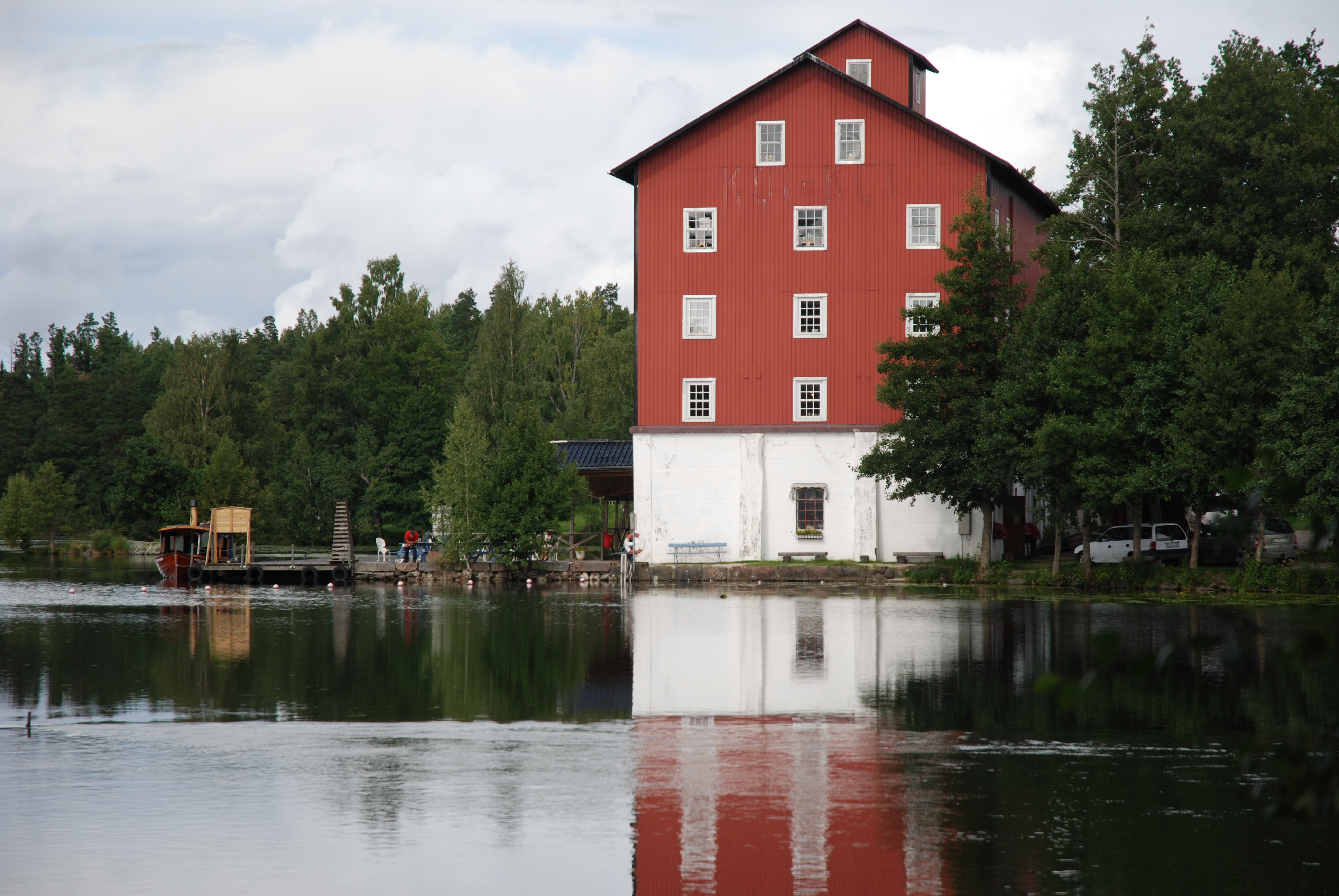 Tidigare spannmålsmagasinet i Upperud, nu hantverkarhus